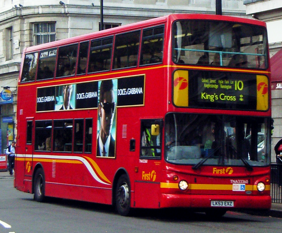 First London's TNA33360 (LX53 EXZ), a Dennis Trident/Alexander ALX400 in London on route 10.